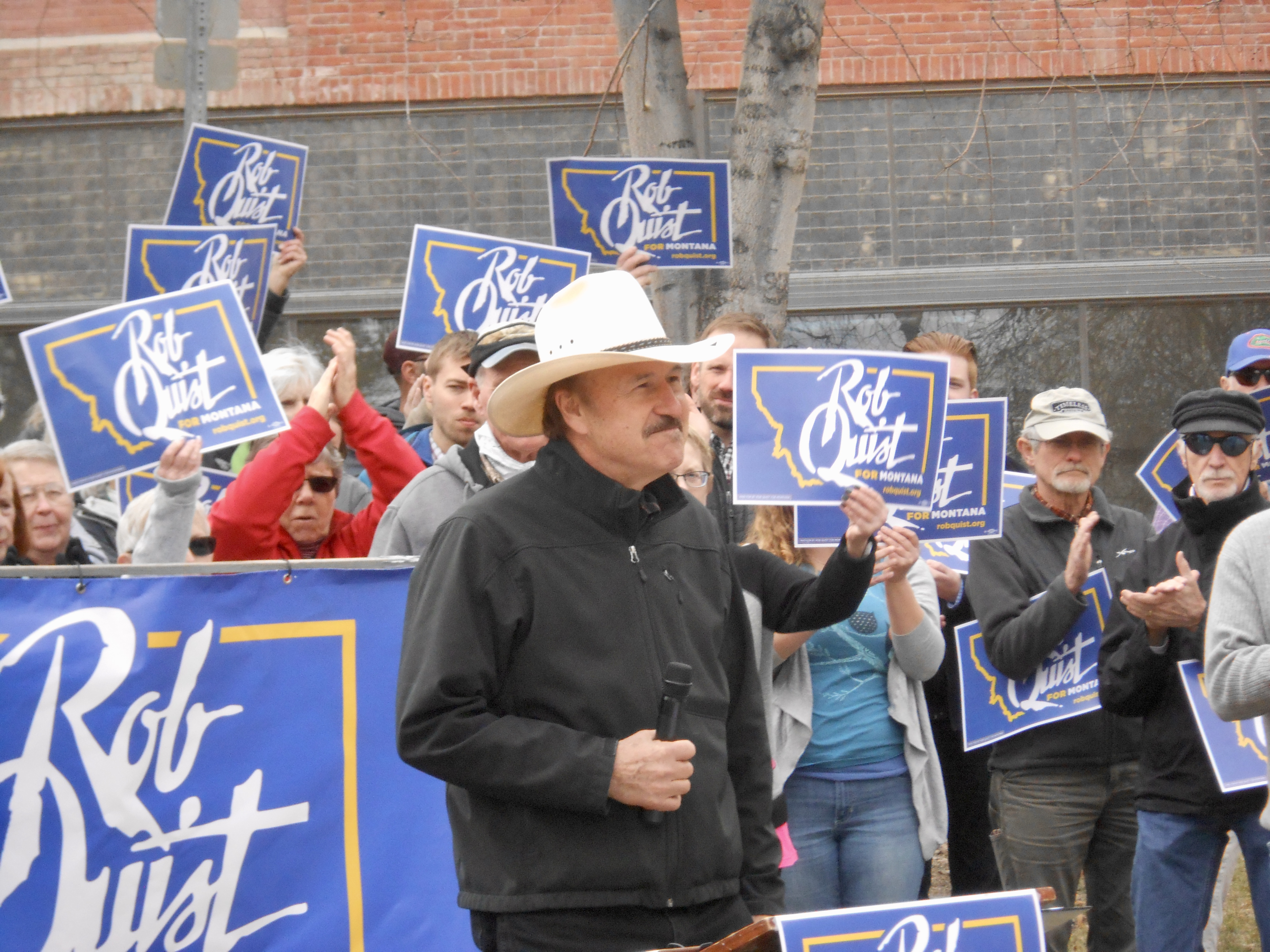 Rob Quist at a campaign stop in Helena, Montana